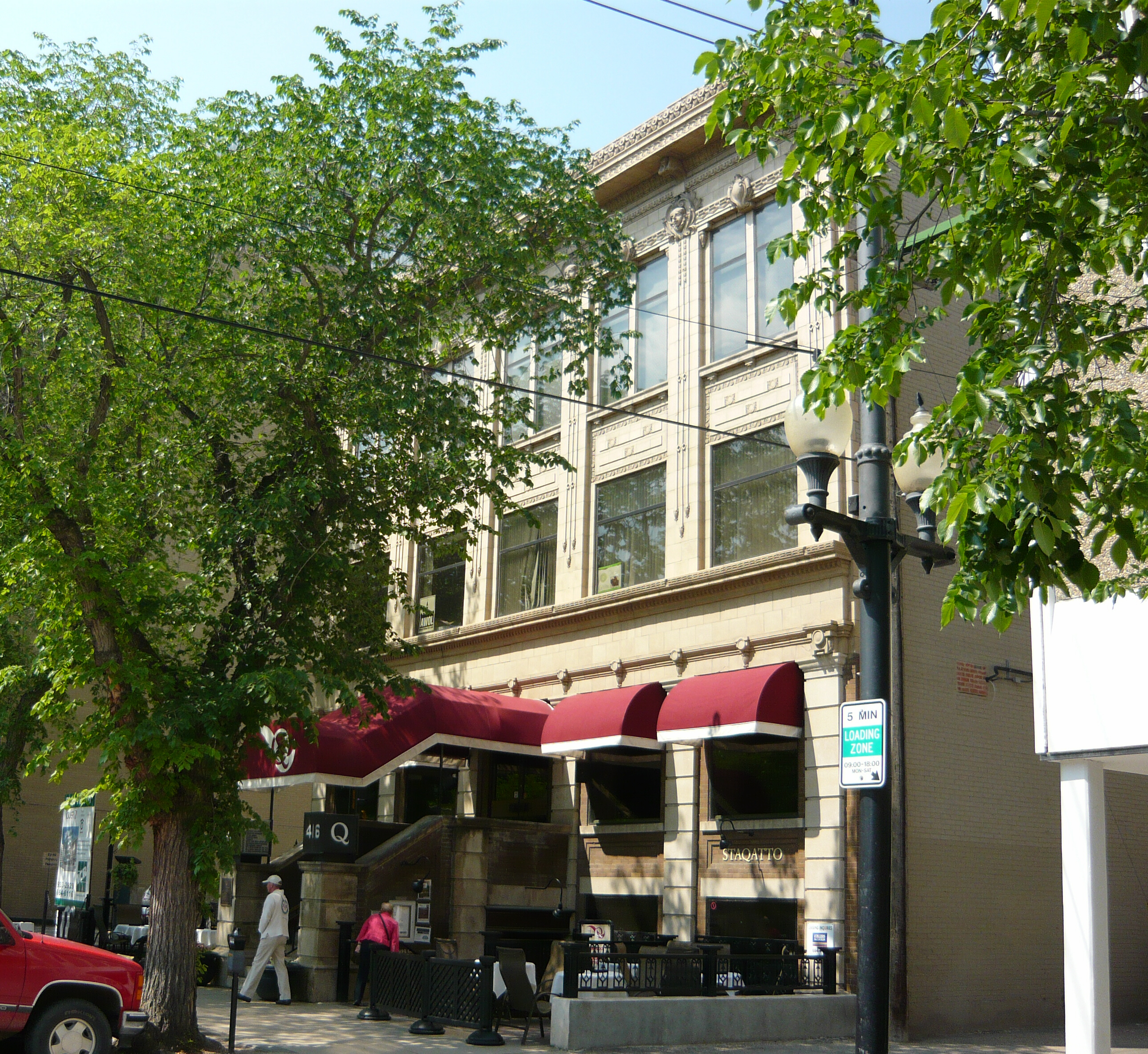 Odd Fellows Temple, 416 21st Street East, Saskatoon, Saskatchewan, Canada. Designated by the City of Saskatoon as a Municipal Heritage Property. Built 1912. Architect: Walter W. LaChance.